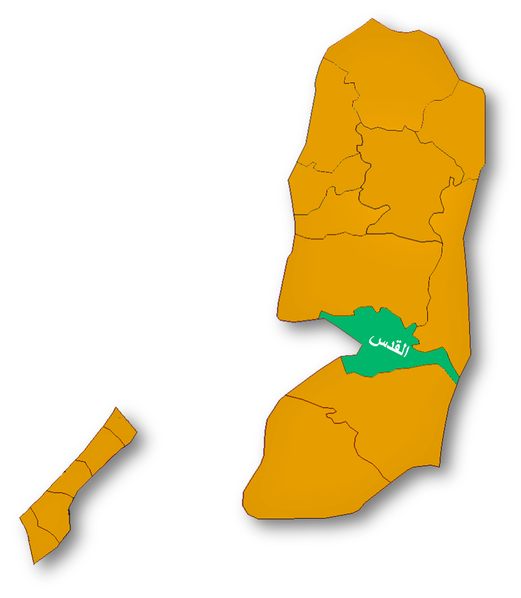 Map of the Palestinian Authorities showing the Governate of Jerusalem